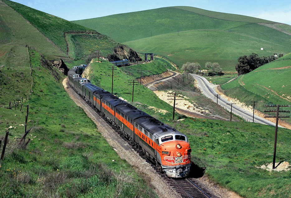 Western Pacific #803A leads the eastbound California Zephyr through Altamont in February 1970